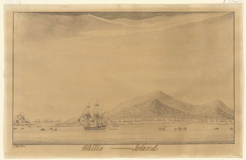 Drawing of Wallis Island (South Pacific) by captain Samuel Wallis, ca 1767. That year, Samuel Wallis gave his name to this island also called 'Uvea by the natives.